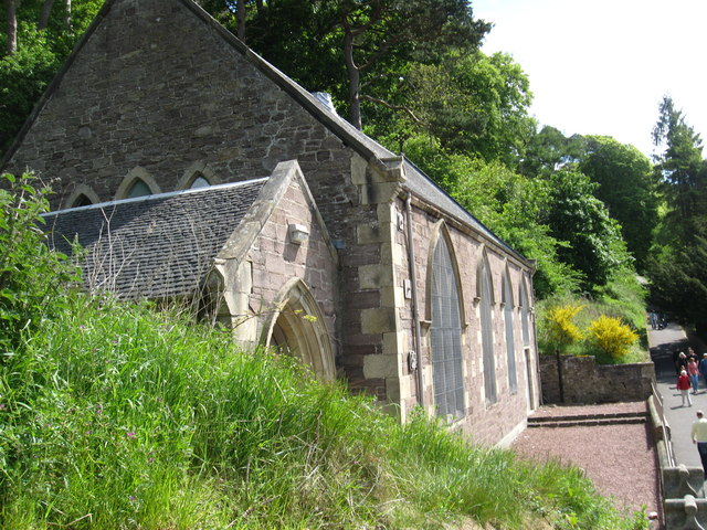 Church at New Lanark